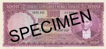 Turkish 1000 Lira banknote. This type was issued in the early 1950s and circulated until the mid 1970s. It was the highest denomination issued in its time and was worth more than US$110 until inflation began to ravage the Turkish currency. Uncirculated (fresh and unused) examples of this note trade on the collector's market for US$500 to US$800.File:1000TRLira.jpg